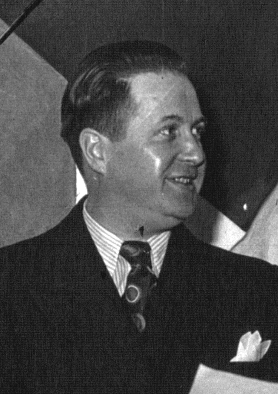 Marcel Bucard (cropped version of Interview de M. Bucard, chef des Francistes).